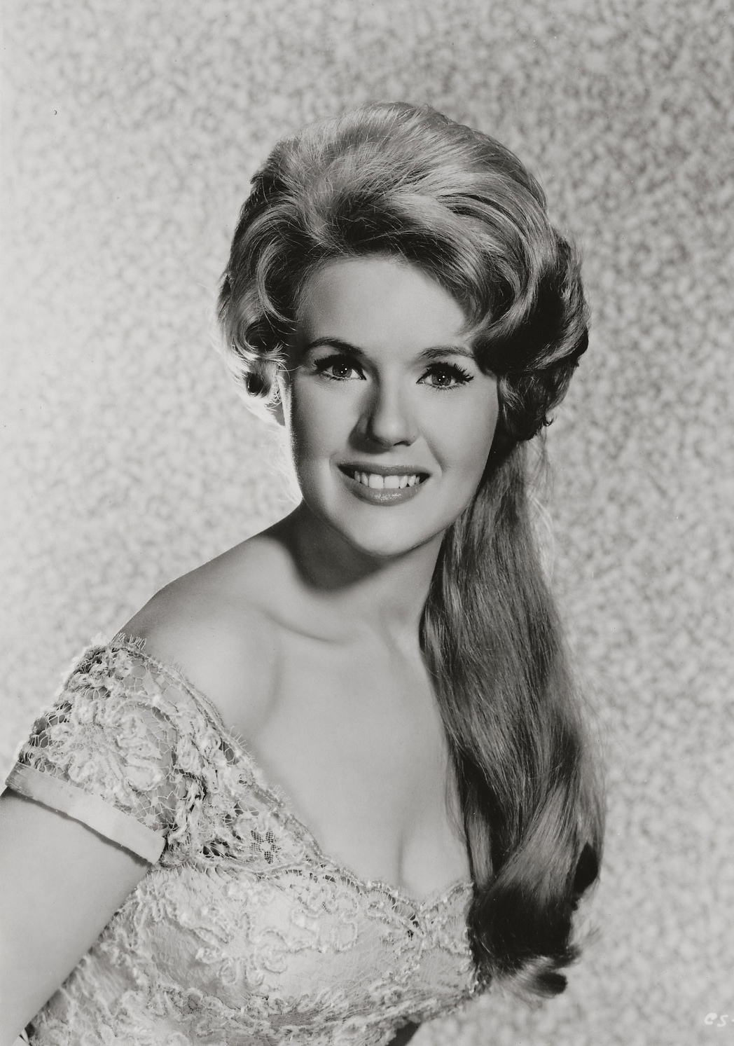 Publicity photo of Connie Stevens